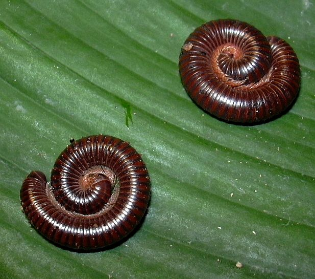 Leptogoniulus sorornus in the Zoological Garden Leipzig